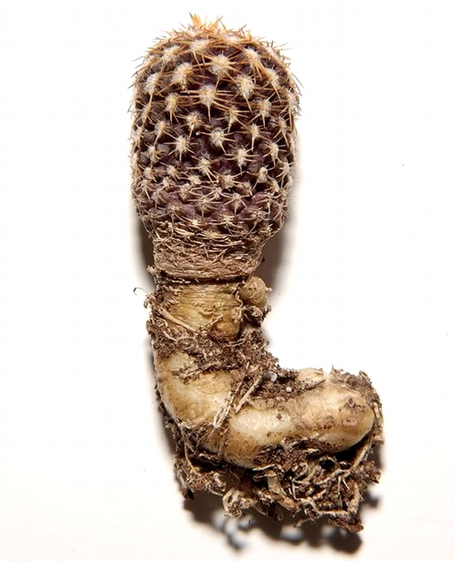 Eriosyce napina ssp. aerocarpa